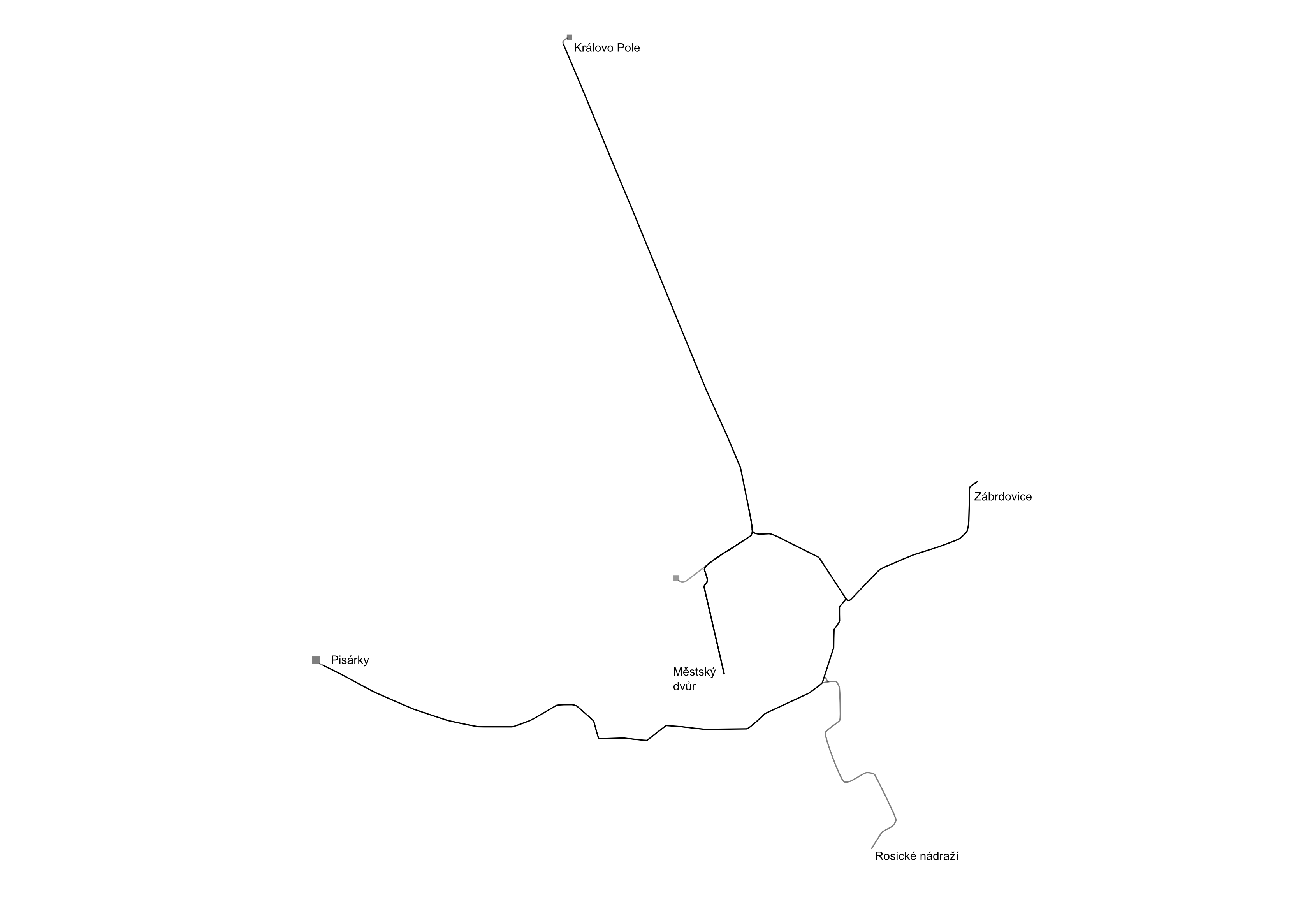 Horse tram network in Brno (situation in 1871), Czech Republic